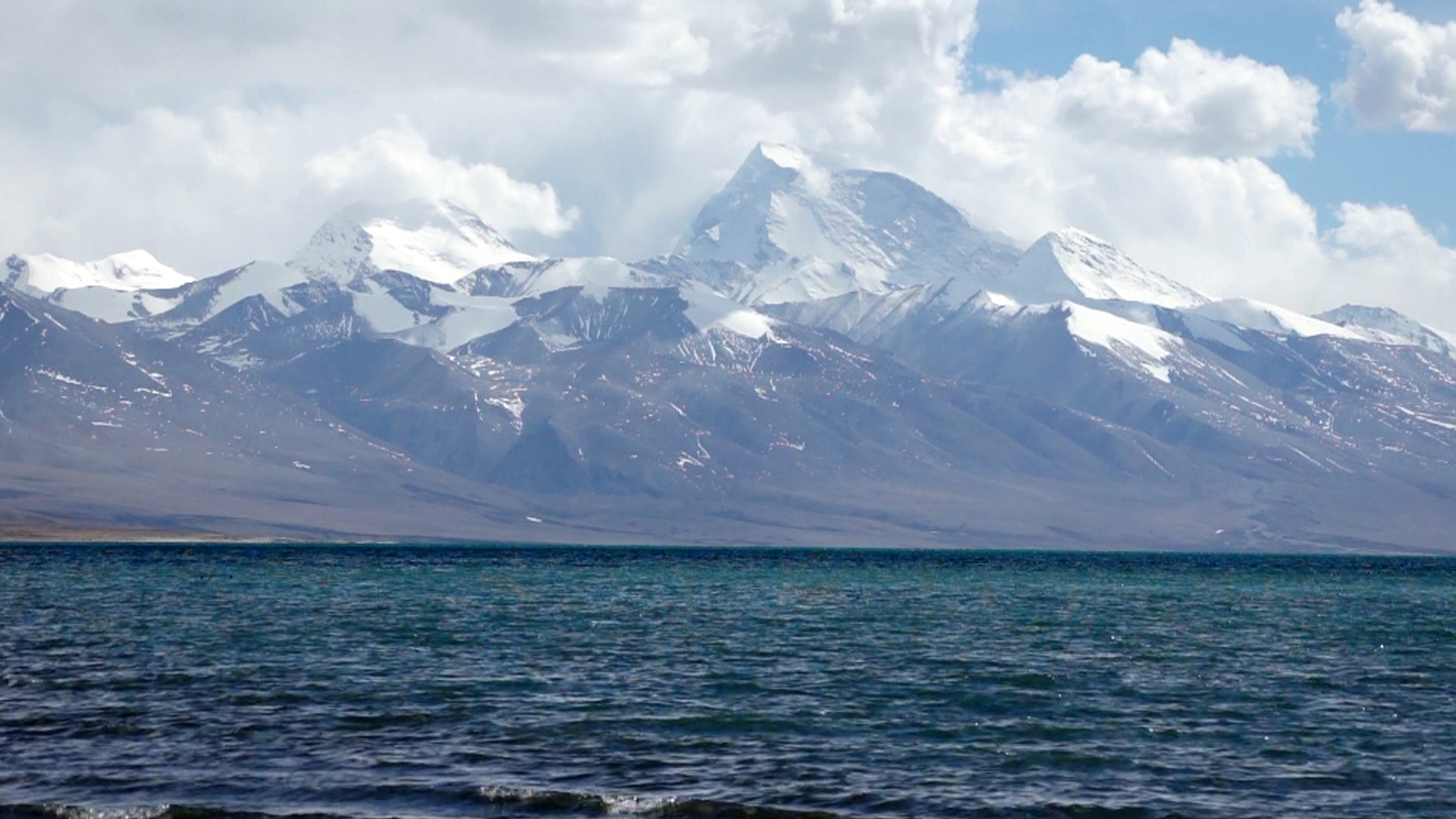 Manasarobar